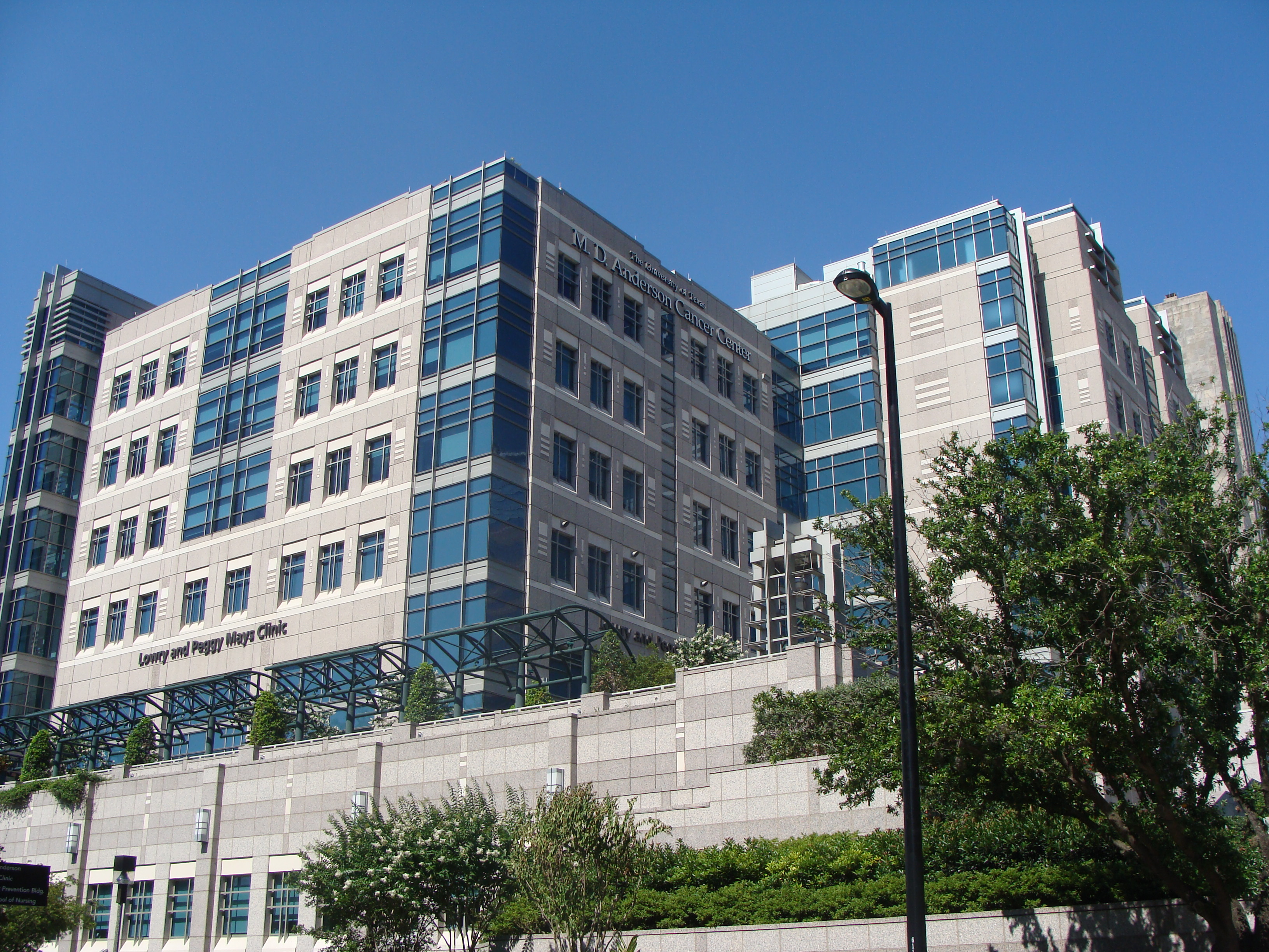 The University of Texas M. D. Anderson Cancer Center. Houston.